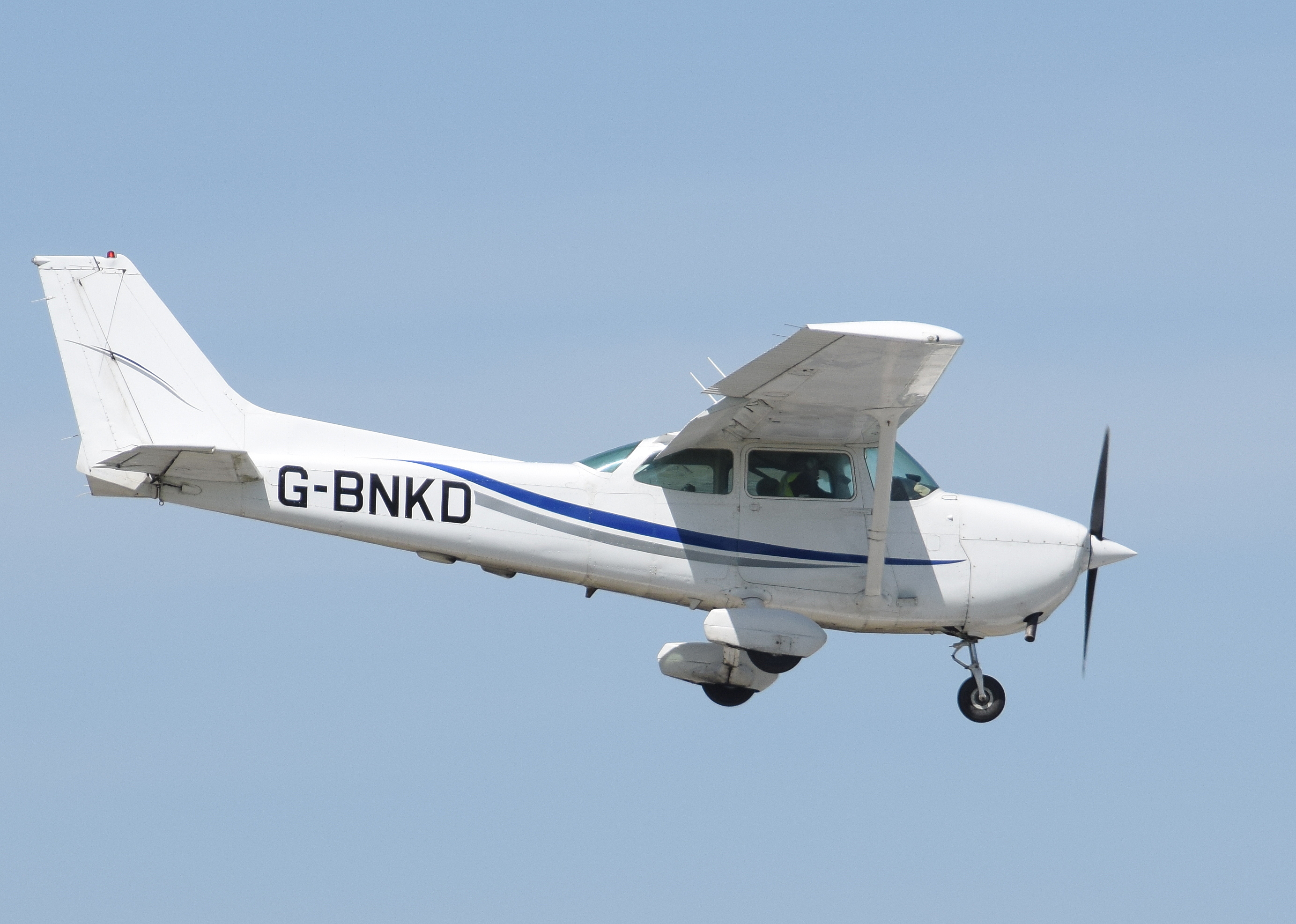 1979 Cessna 172N Skyhawk (G-BNKD) lands at Bristol Airport, England.